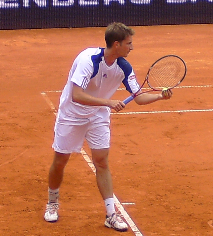 Florian Mayer during the match versus Máximo González at the German Open 2010 in Hamburg